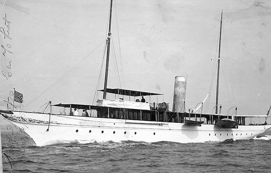 Photo #: NH 100548 Felicia (American Steam Yacht, 1898) Underway prior to World War I. This yacht was acquired by the U.S. Navy on 21 June 1917 and placed in commission on 29 June as USS Felicia (SP-642). She was stricken from the list of Naval vessels on 27 September 1919 and sold on 25 March 1920. U.S. Naval Historical Center Photograph.